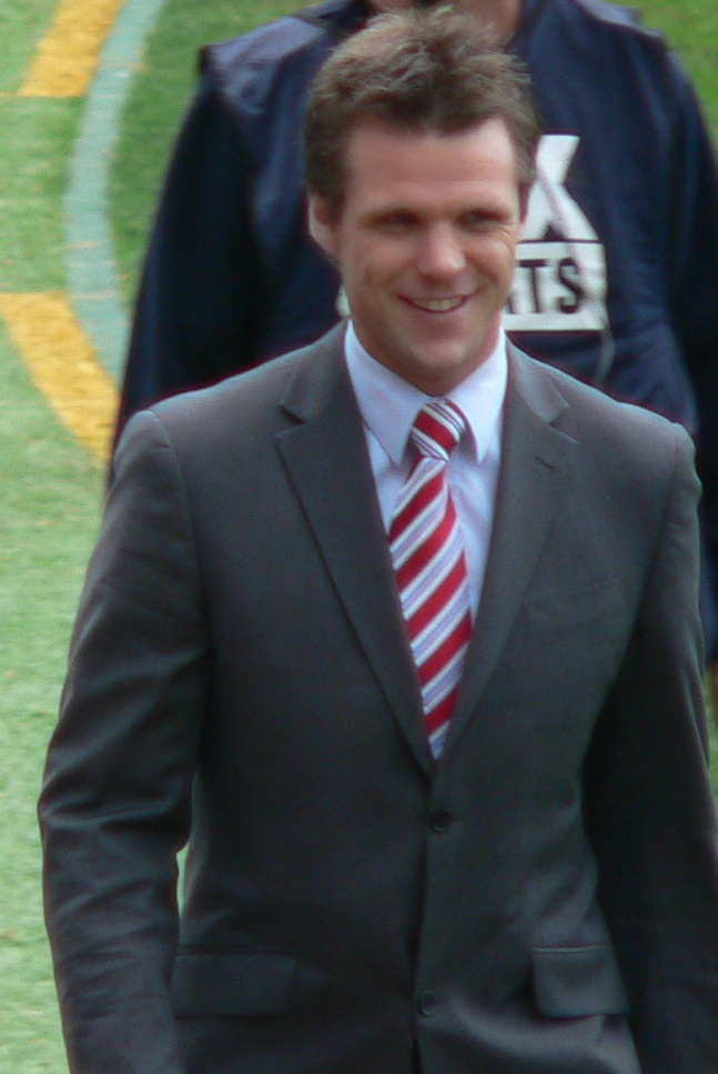 Leigh Colbert at Subiaco Oval in July 2010